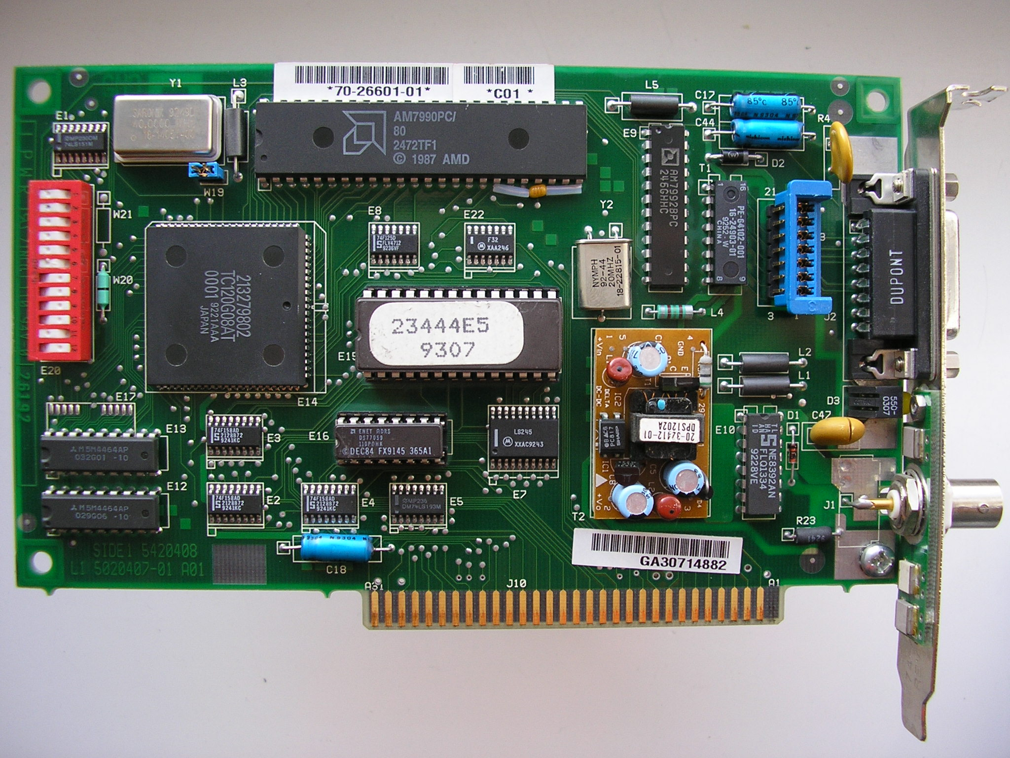 DEC EtherWorks LC (DE100) ethernet controller FCC ID: A09-DE100 white stickers: 70-266601-01 C01 GA30714882 Connectors: AUI (10BASE5); BNC (10BASE2) Circa 1990